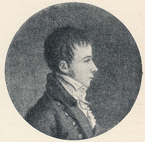 Hans Christian Ørsted as a youth. French gravure by Chretien.